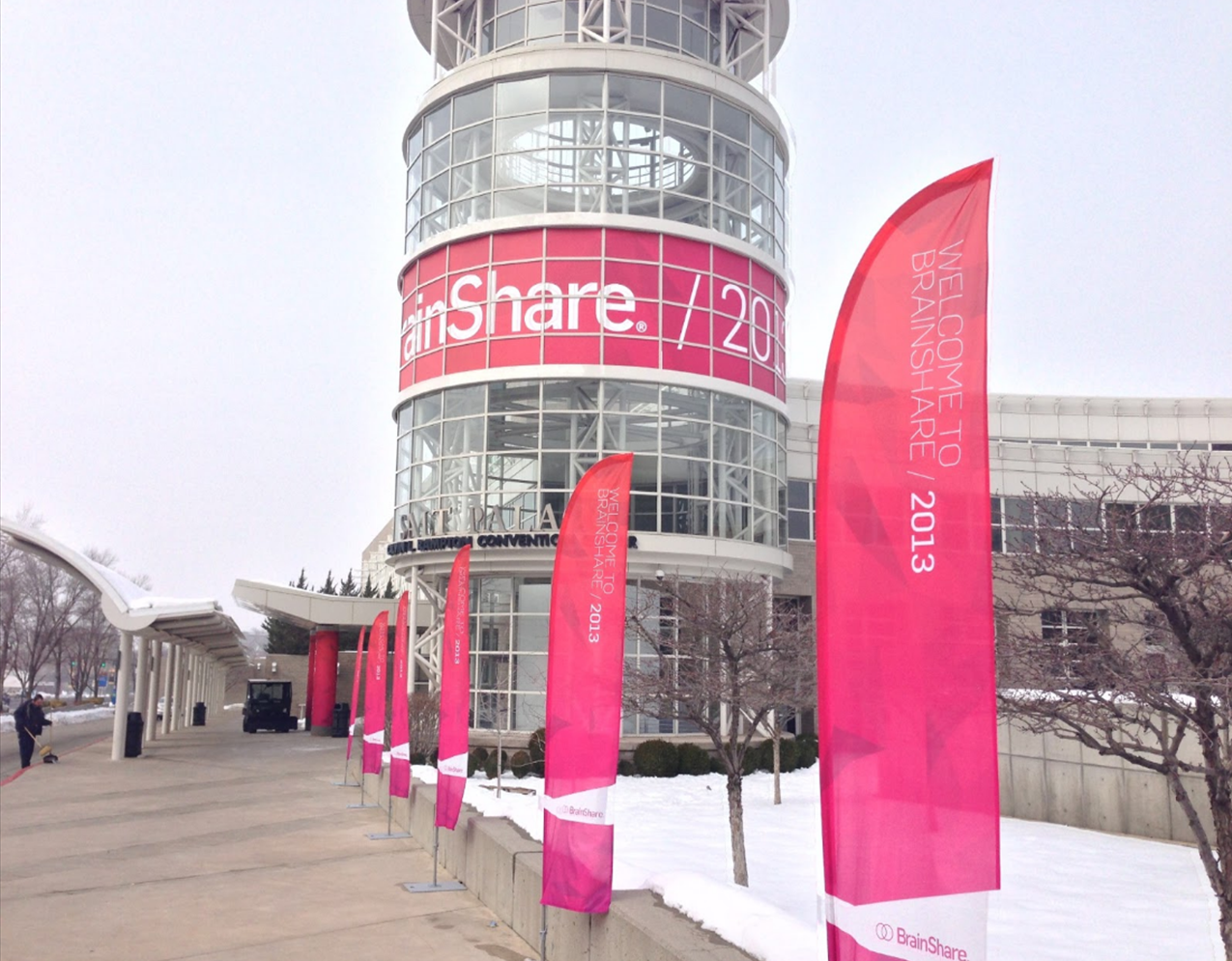 The exterior of the Salt Palace Convention Center in Salt Lake City, Utah, as it hosts the Novell BrainShare 2013 conference. By this time, Novell was a subsidiary of The Attachmate Group. This is the next-to-last time that BrainShare would be held.